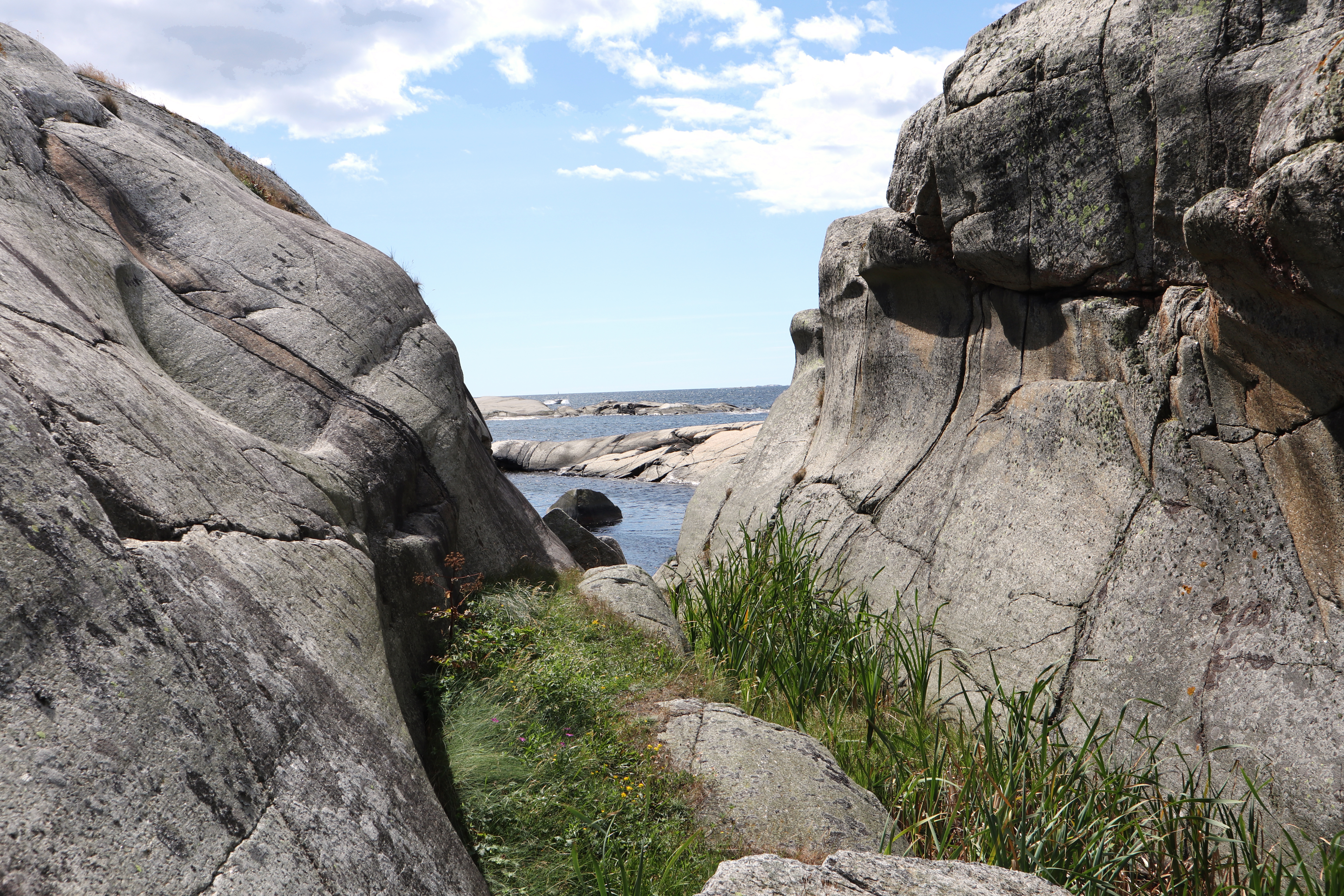 The coast of Tjøme, Norway.